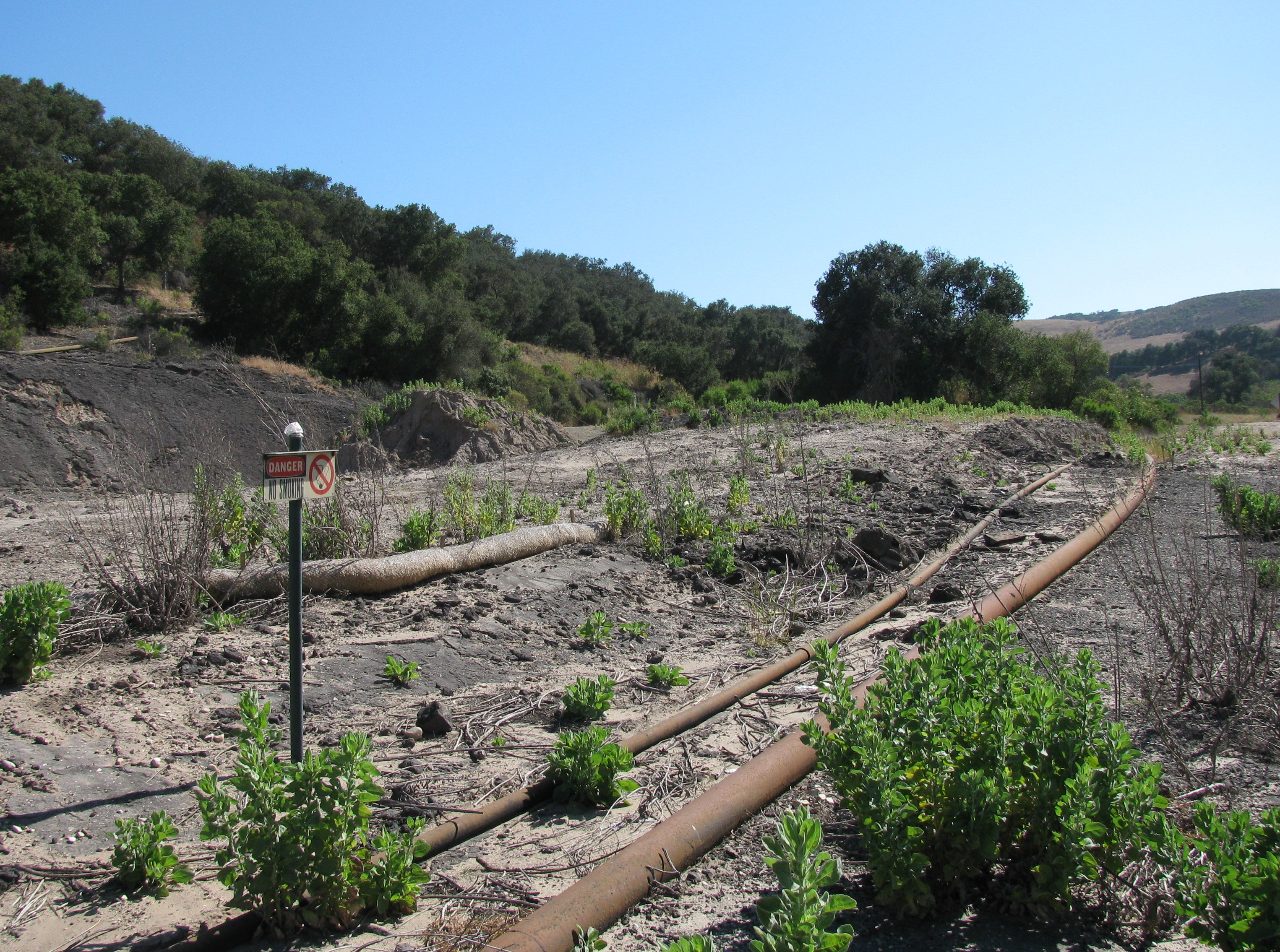 View of Palmer Road spill, showing old oil containment booms, a year and a half later (July 2009); photo by self; GFDL/equivalent